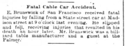 Ad in the Chicago Tribune from 16 December 1892 of Emanuel Brunswick's accident .